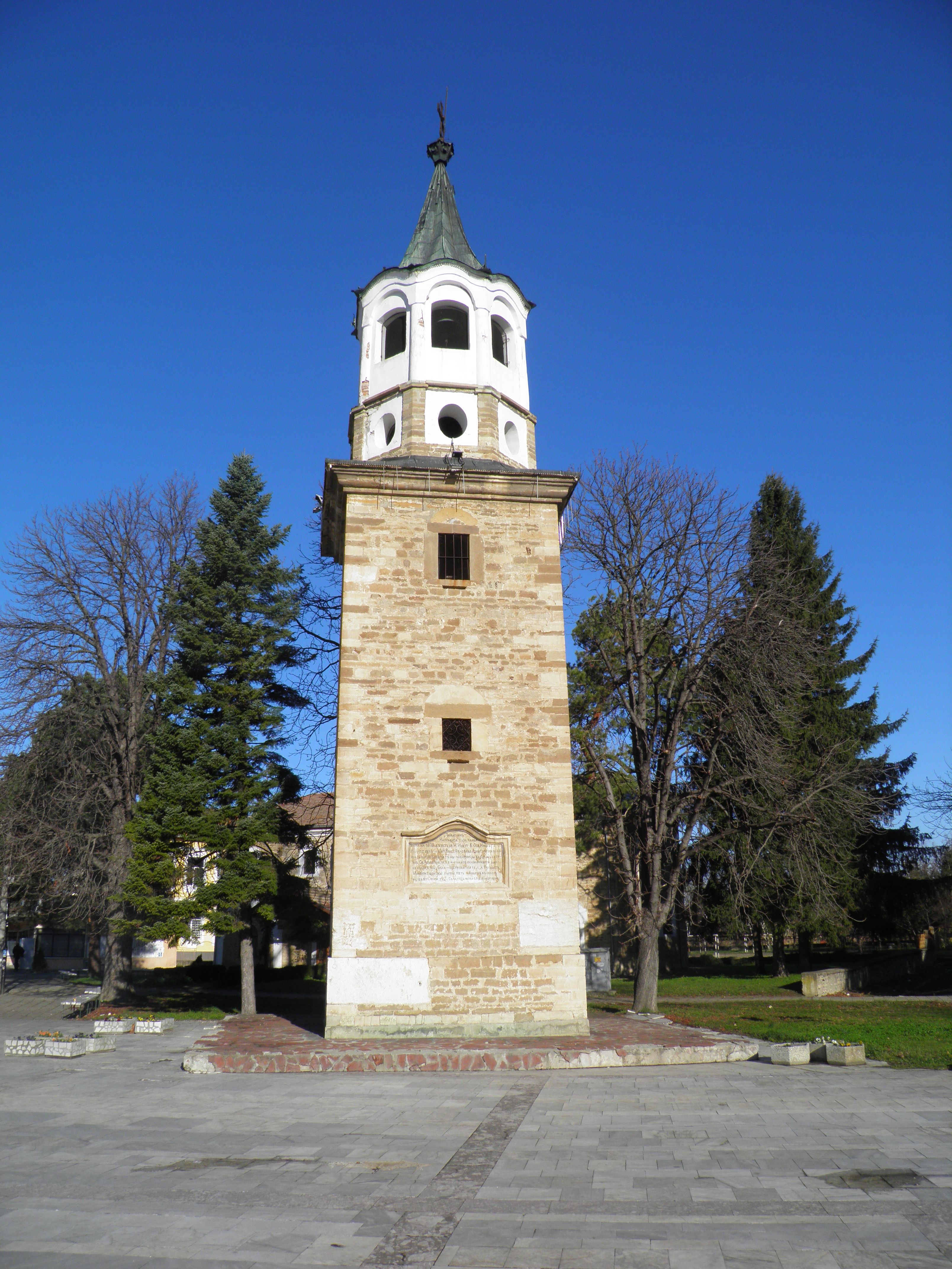 Belfry Byala Cherkva, Bulgaria